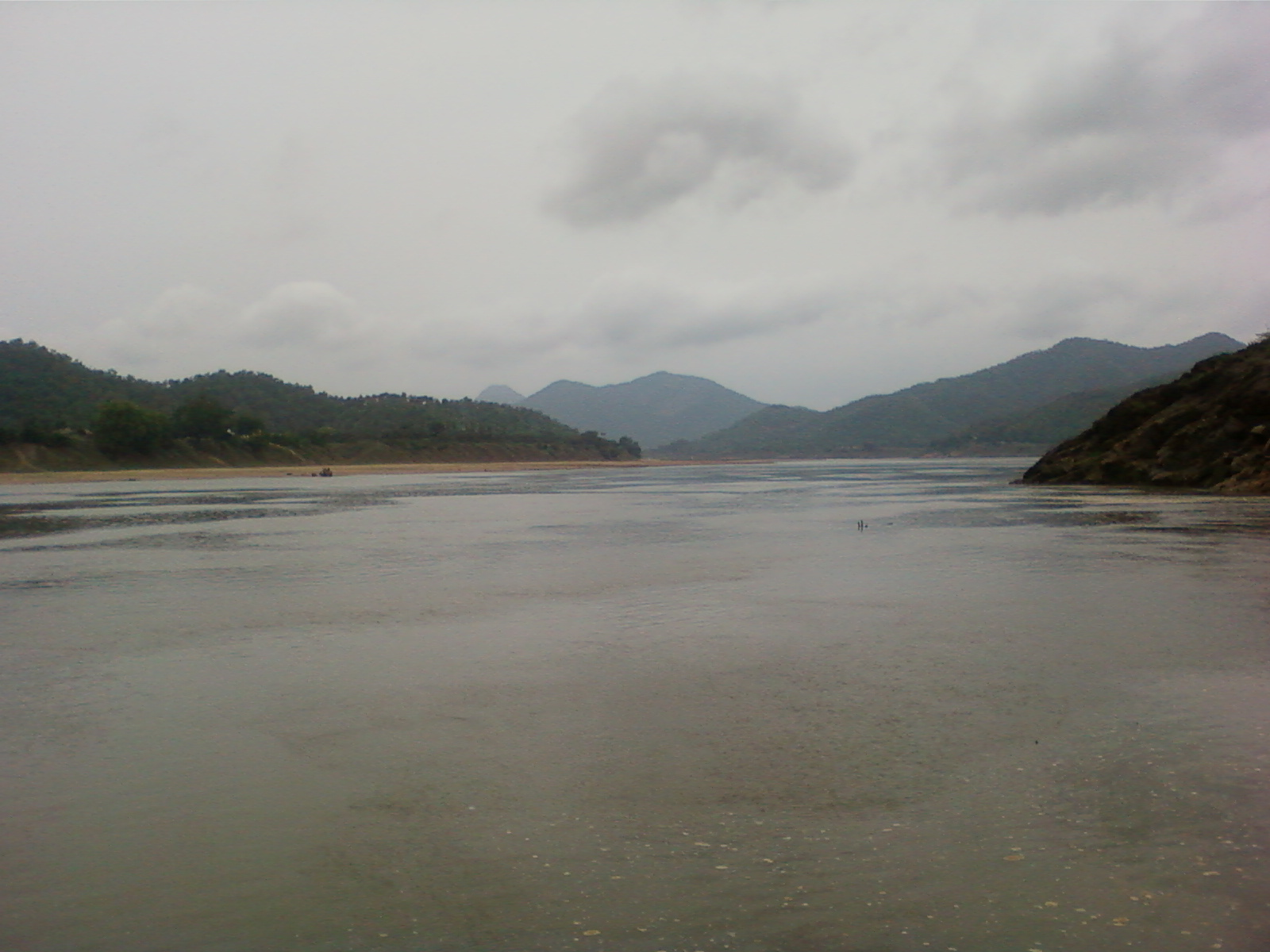 Godavari river at Papikondalu